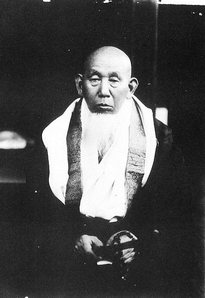 Mokurai Shimaji